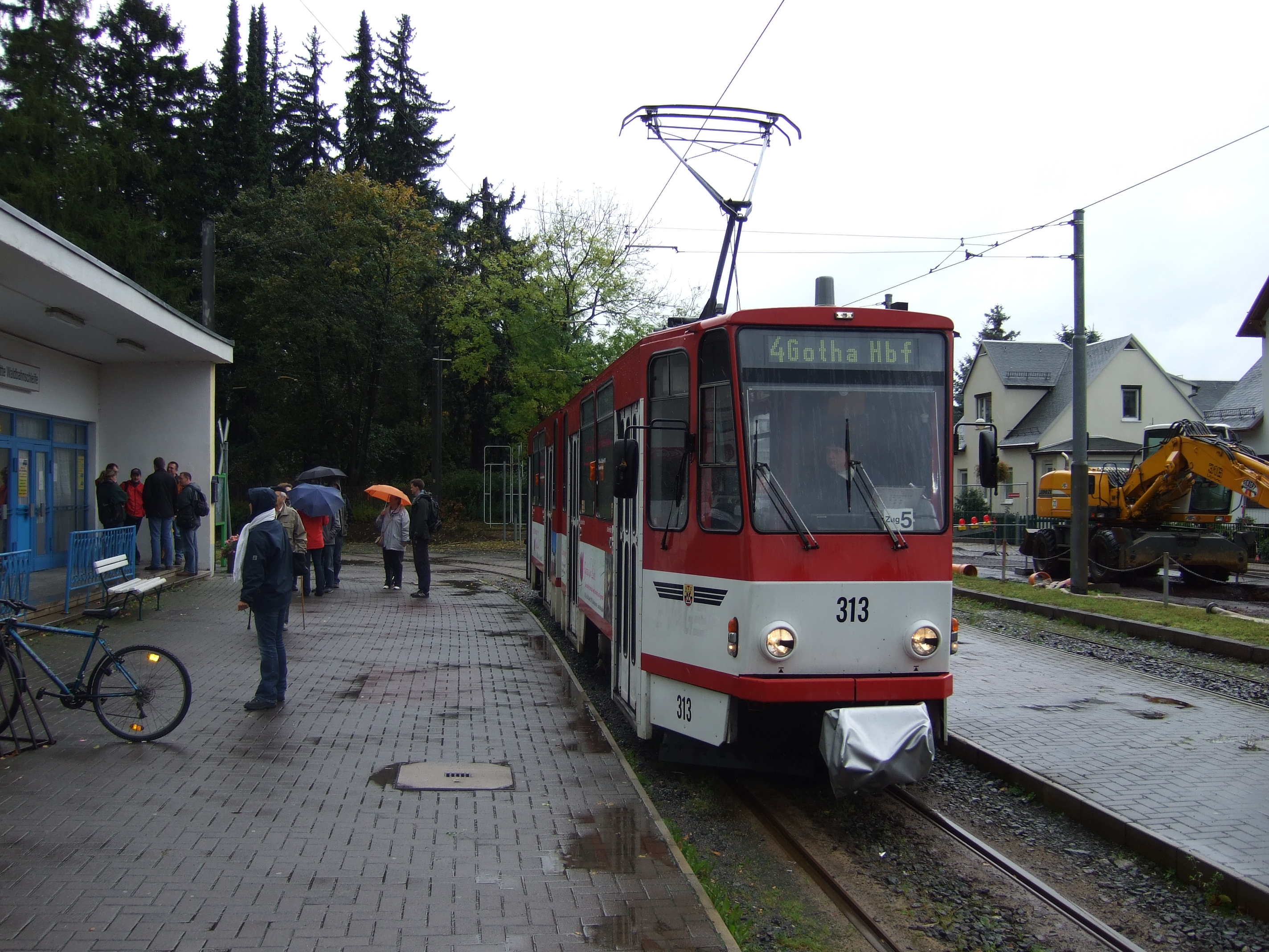 Interurban “Thüringerwaldbahn” at station “Tabarz Wendeschleife” in Tabarz, Germany.